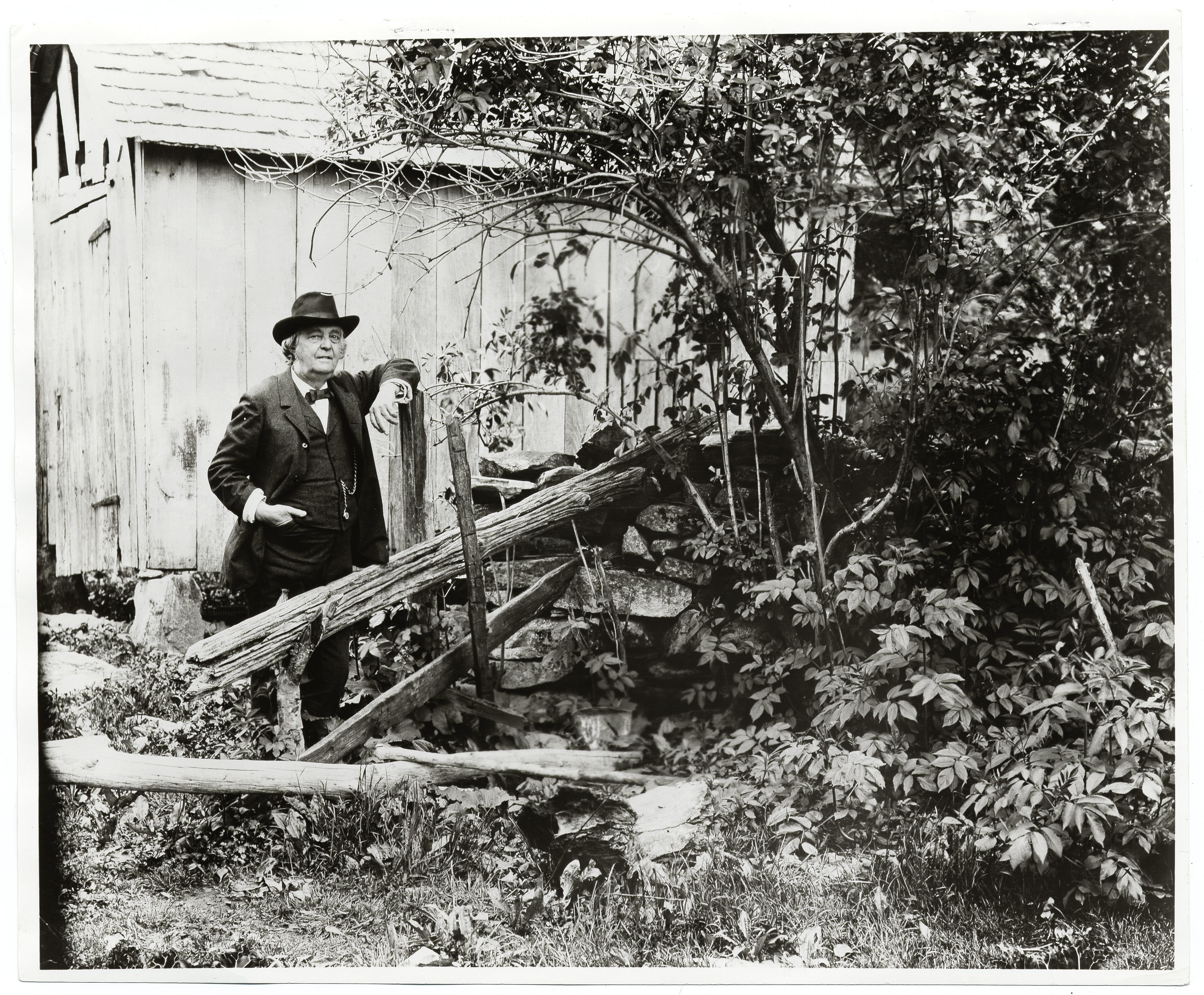 Description: Copyprint of Tait standing behind a fence. Photographer unknown. Included with the photo is a copy of a letter addressed to Mr. and Mrs. Kelly from Tait's son, Arthur S. B. Tait, December 13, 1937, "This photograph of my father, A. F. Tait, whose paintings you have was taken in July 1893, while sketching in Putnam County, N.Y. Accept this as an appreciation of your courtesies to his son." Tait, Arthur Fitzwilliam, 1819-1905 Creator/Photographer: Unidentified photographer Medium: Black and white photographic print Dimensions: 20 cm x 24 cm Date: 1893 Persistent URL: [1] Repository: Archives of American Art Accession number: aaa_miscphot_5642